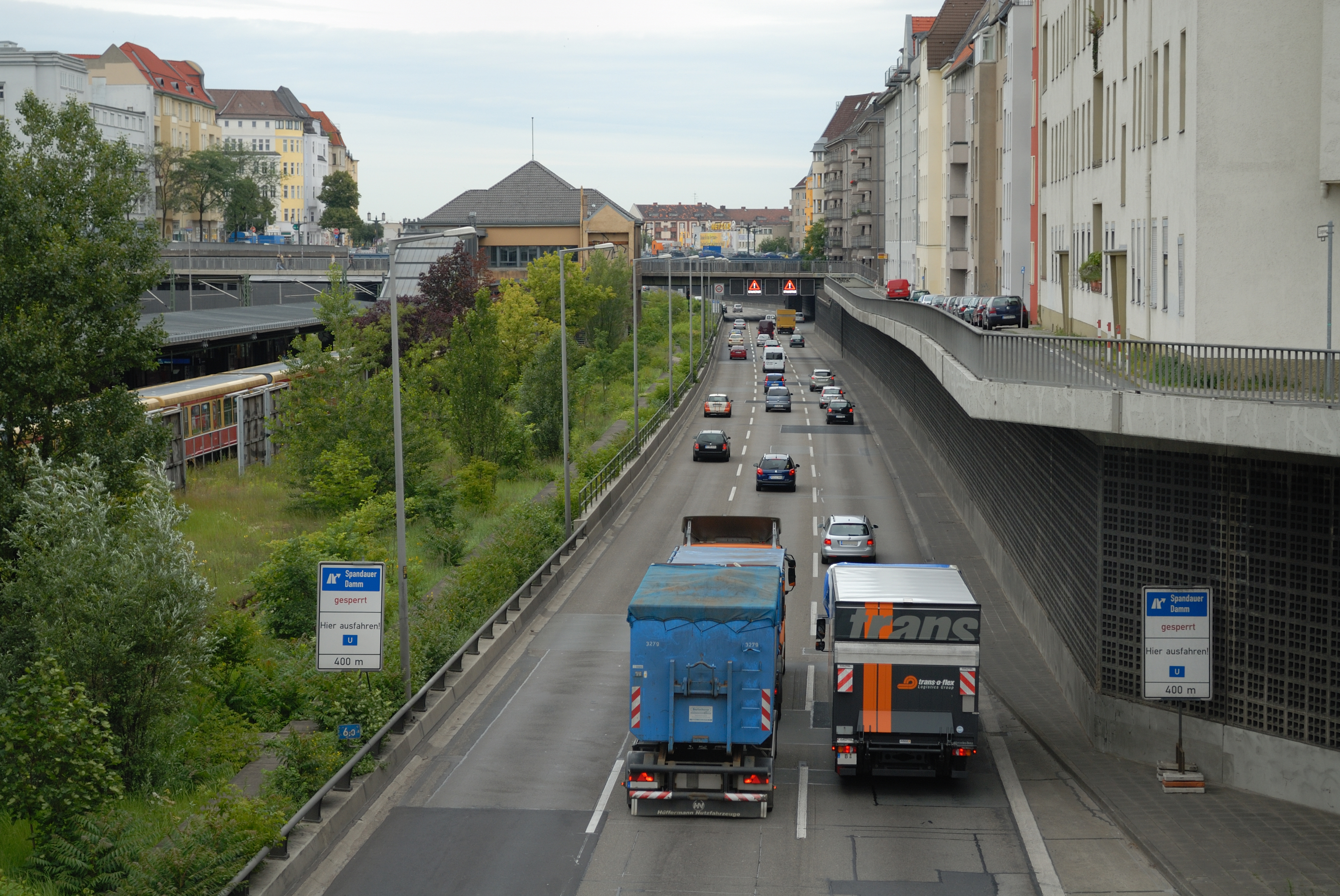 View of A 100 coming from Autobahndreieck Funkturm (Funkturm interchange) looking north. In 2005 the opposite direction had the second highest traffic density of all German highways, on average 181.500 vehicles passed there daily. There was no count for the direction shown in the image in that year.